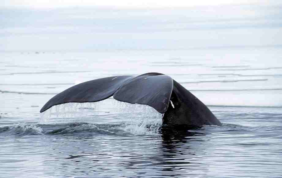 Fluke of bowhead whale (Balaena mysticetus), Foxe Basin (Nunavut, Canada)